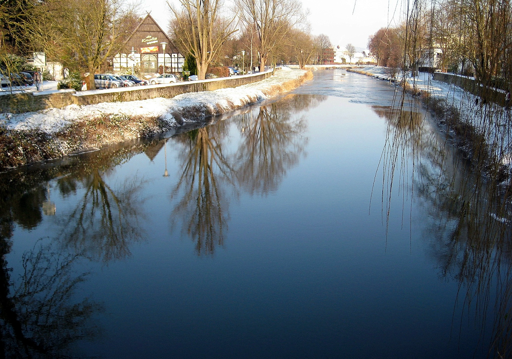 Else River in Bünde, District of Herford, North Rhine-Westphalia, Germany.